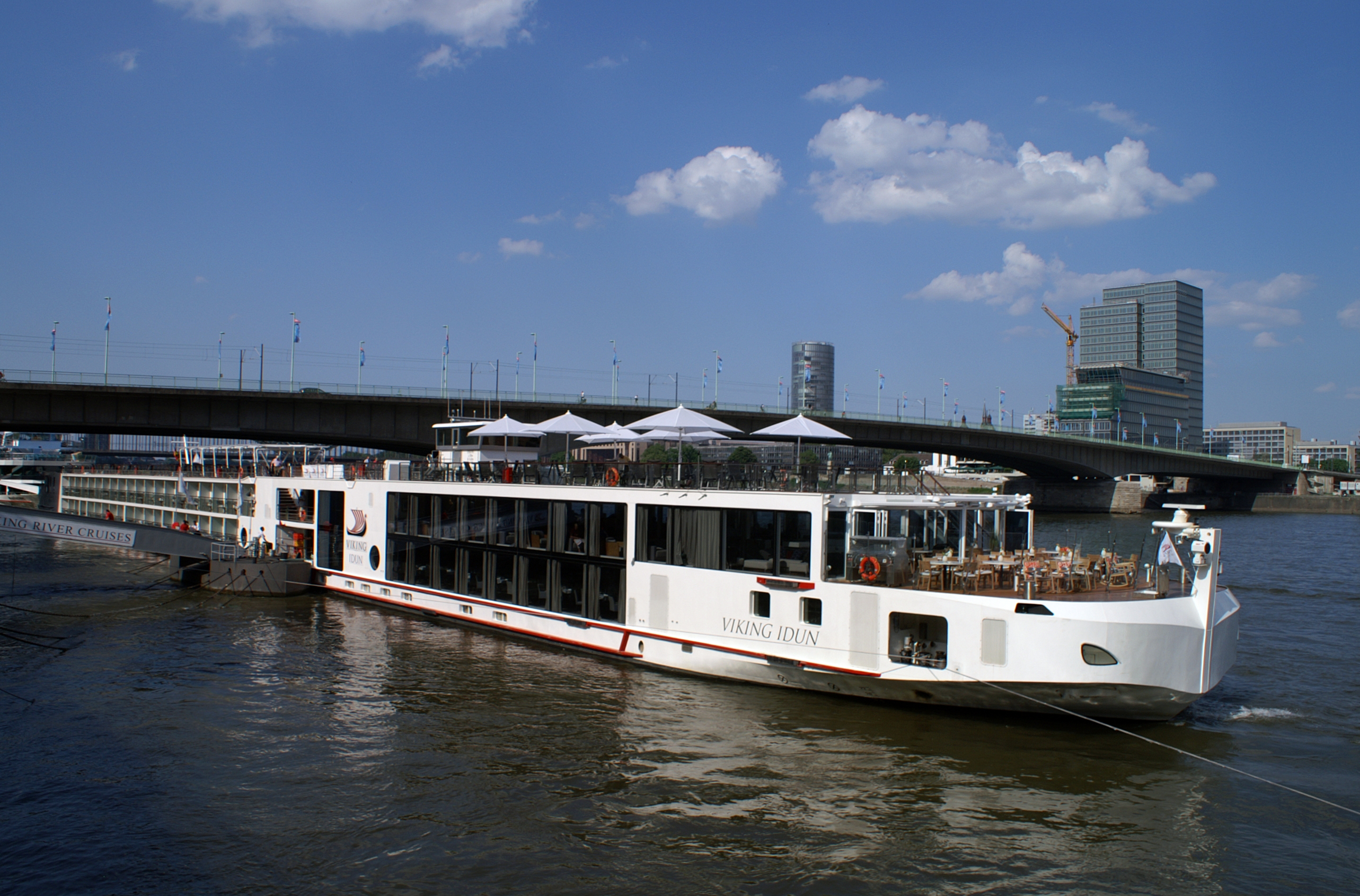 River cruise ship Viking Idun in Cologne.